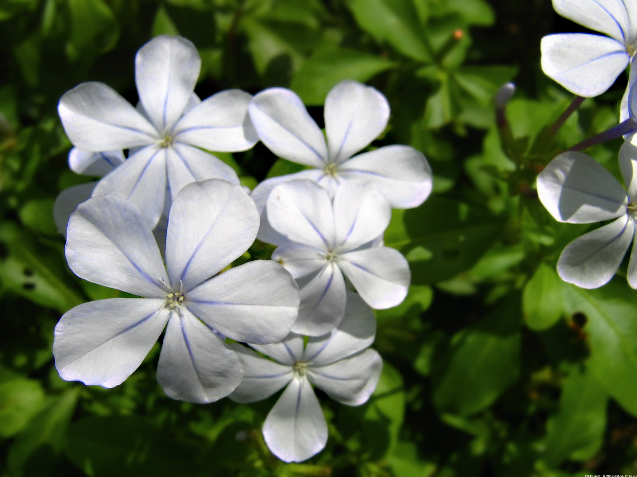 A Cluster of Plumbago Flowers Republic of Singapore Img by Calvin Teo [May 2006]